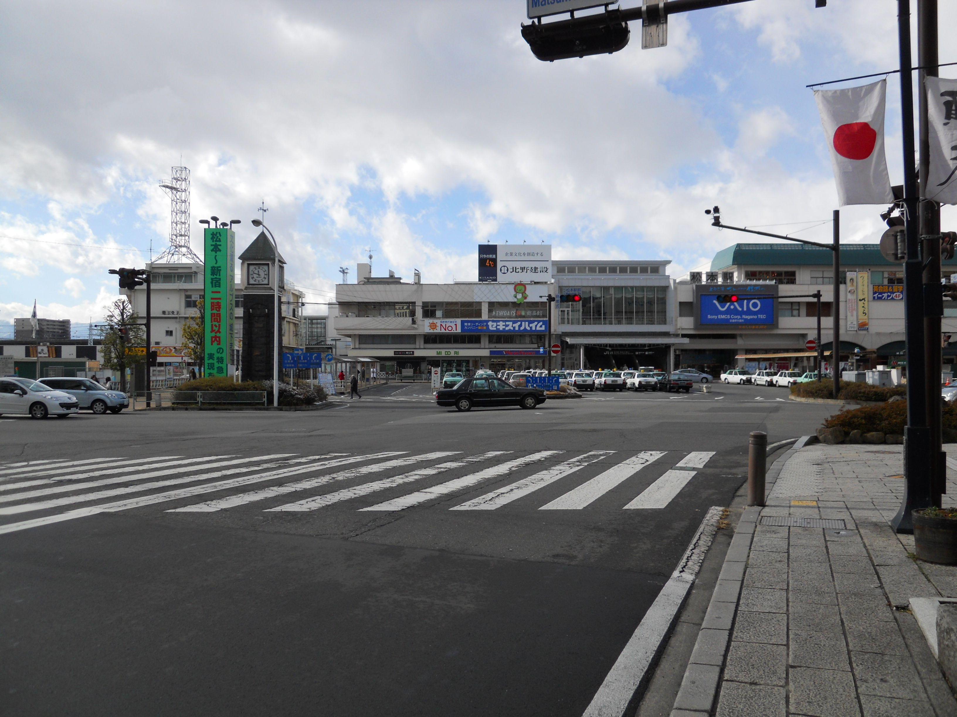 Matsumoto Station